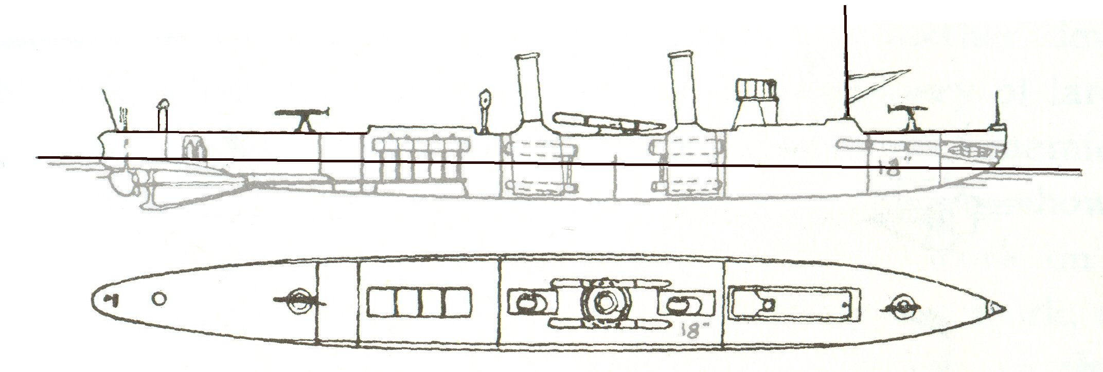 Danish Torpedo Boat Havørnen. Built by Orlogsværftet (Denmark) 1897.